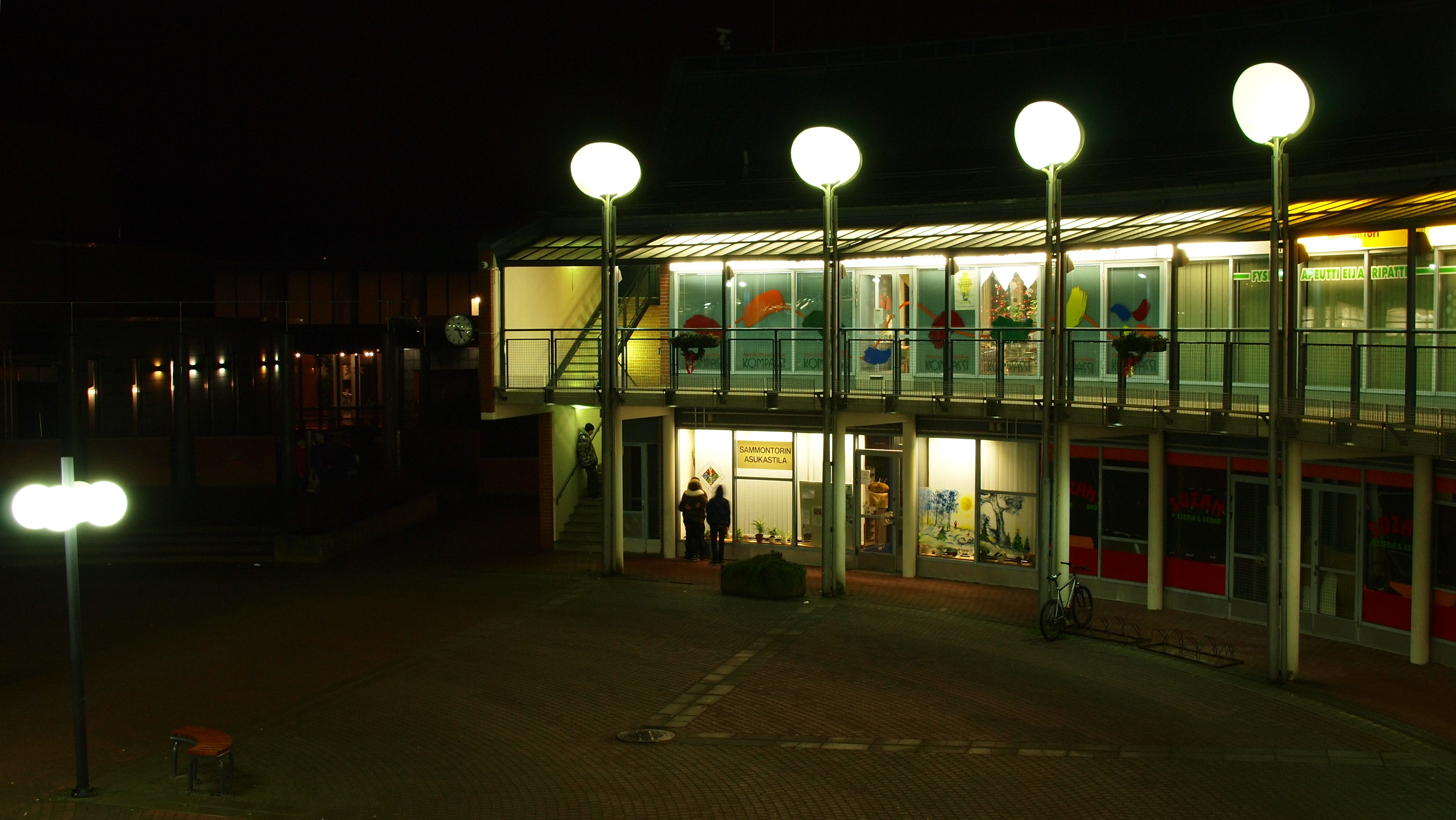 The round Sammontori building in the suburb of Sammonlahti in Lappeenranta, Finland.